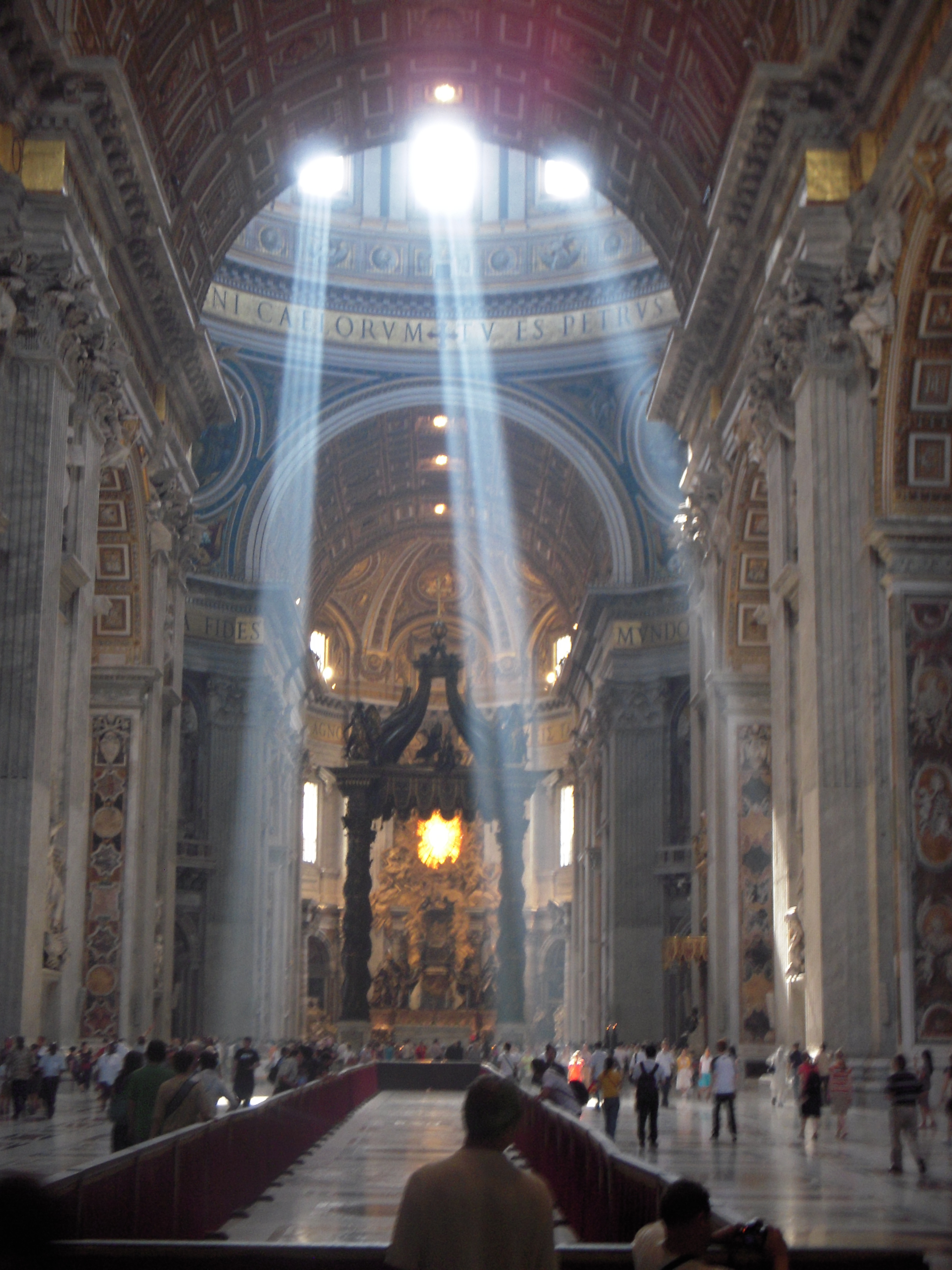 Crepuscular rays in Saint Peter's Basilica, Vatican City